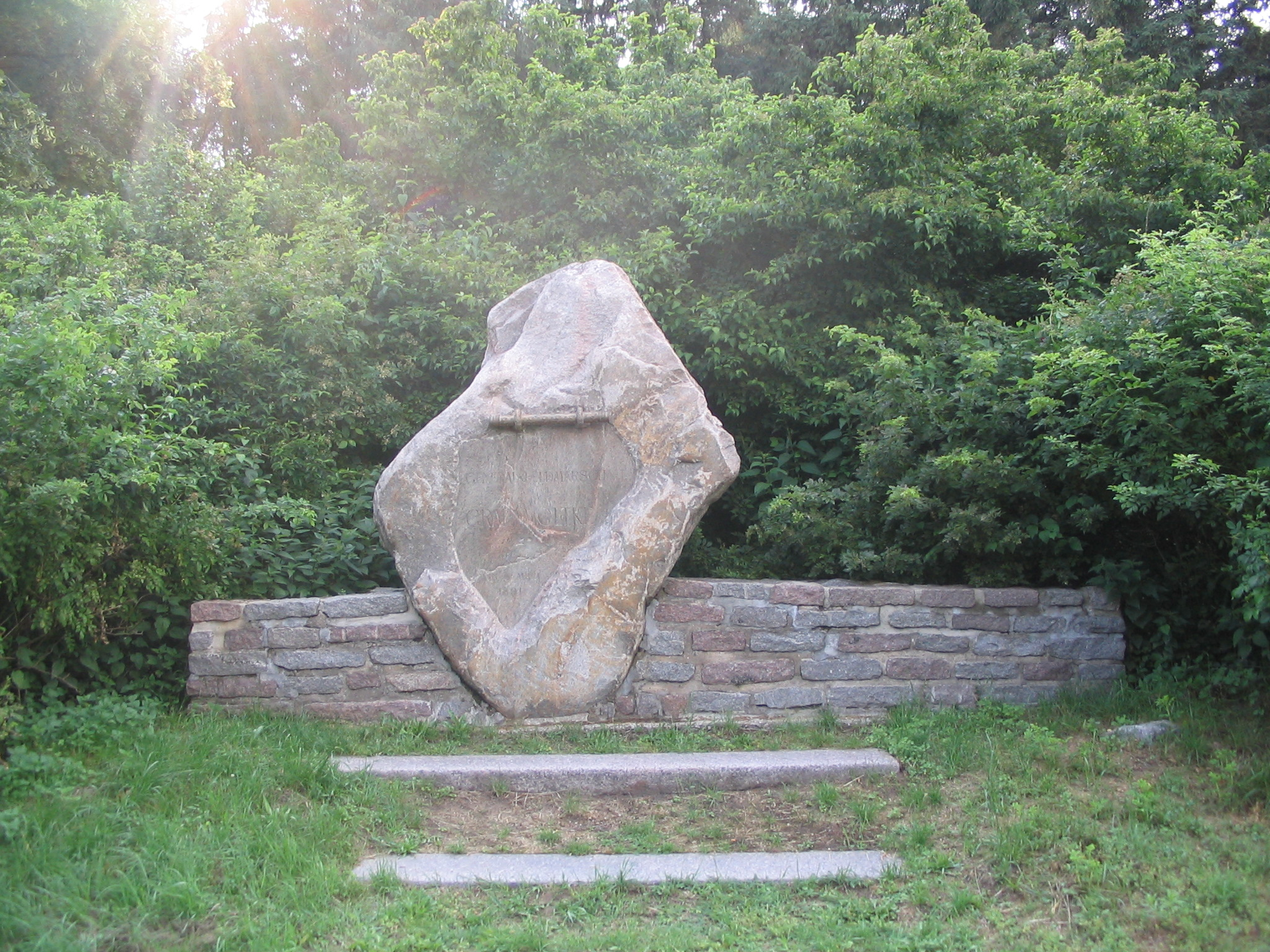 Kiel Canal: “Moltkestein” in Schülp b. Rendsburg: In memory to the visit of Generalfeldmarschall Graf von Moltke at the building lot of the Kiel Canal 1891/04/09